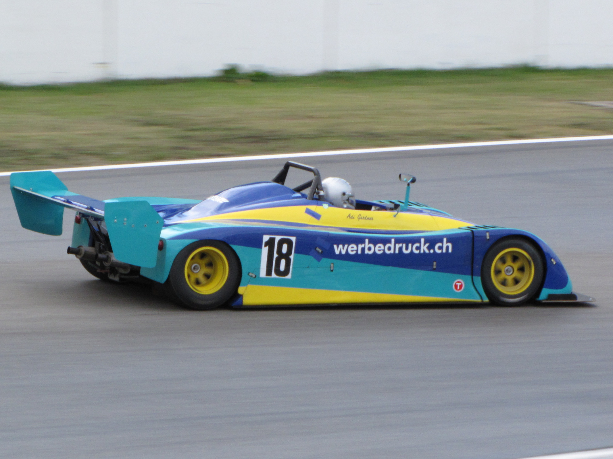 Martini Mk 66 at the Sports Car Challenge race at Hockenheimring 2009